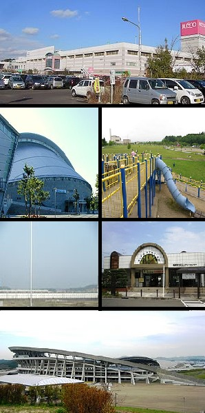 Rifu montage